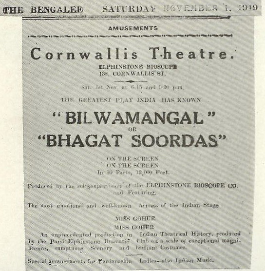 Paper Cutting of Billwamangal in 1919